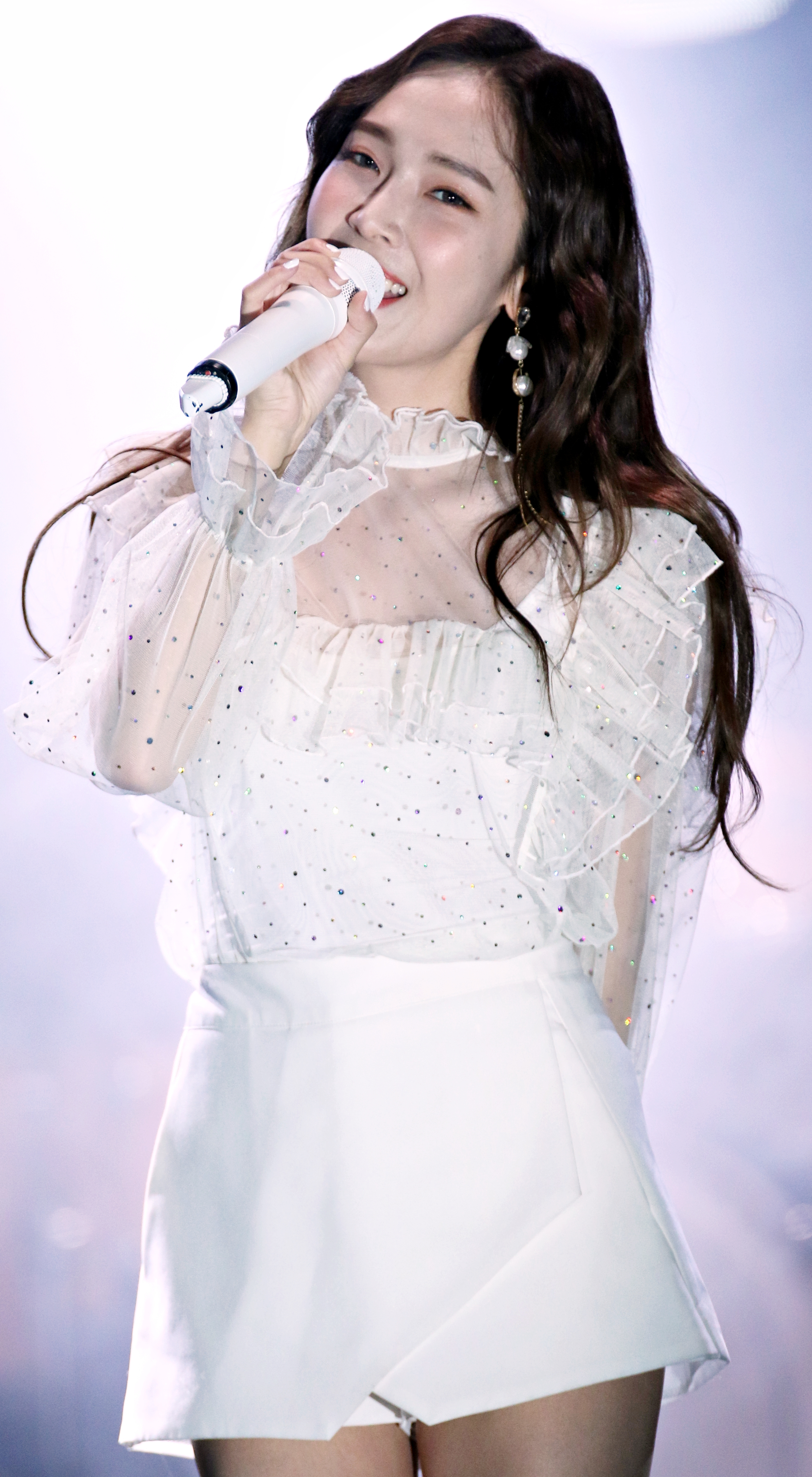 Jessica Jung at Open Concert in Singapore on July 1, 2017.